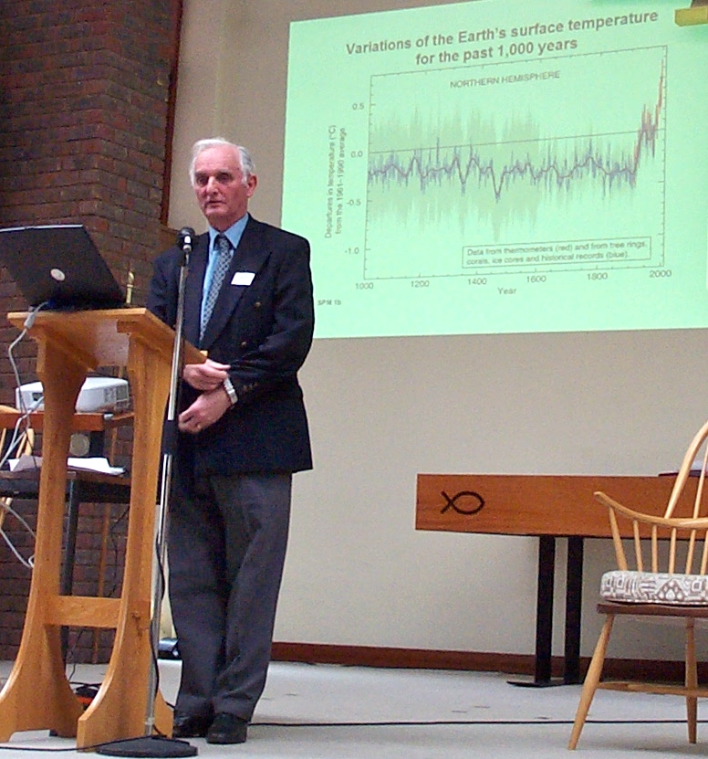 Sir John Houghton speaking at a climate change conference in High Wycombe, 2005-02-26. Copyright © Kaihsu Tai.